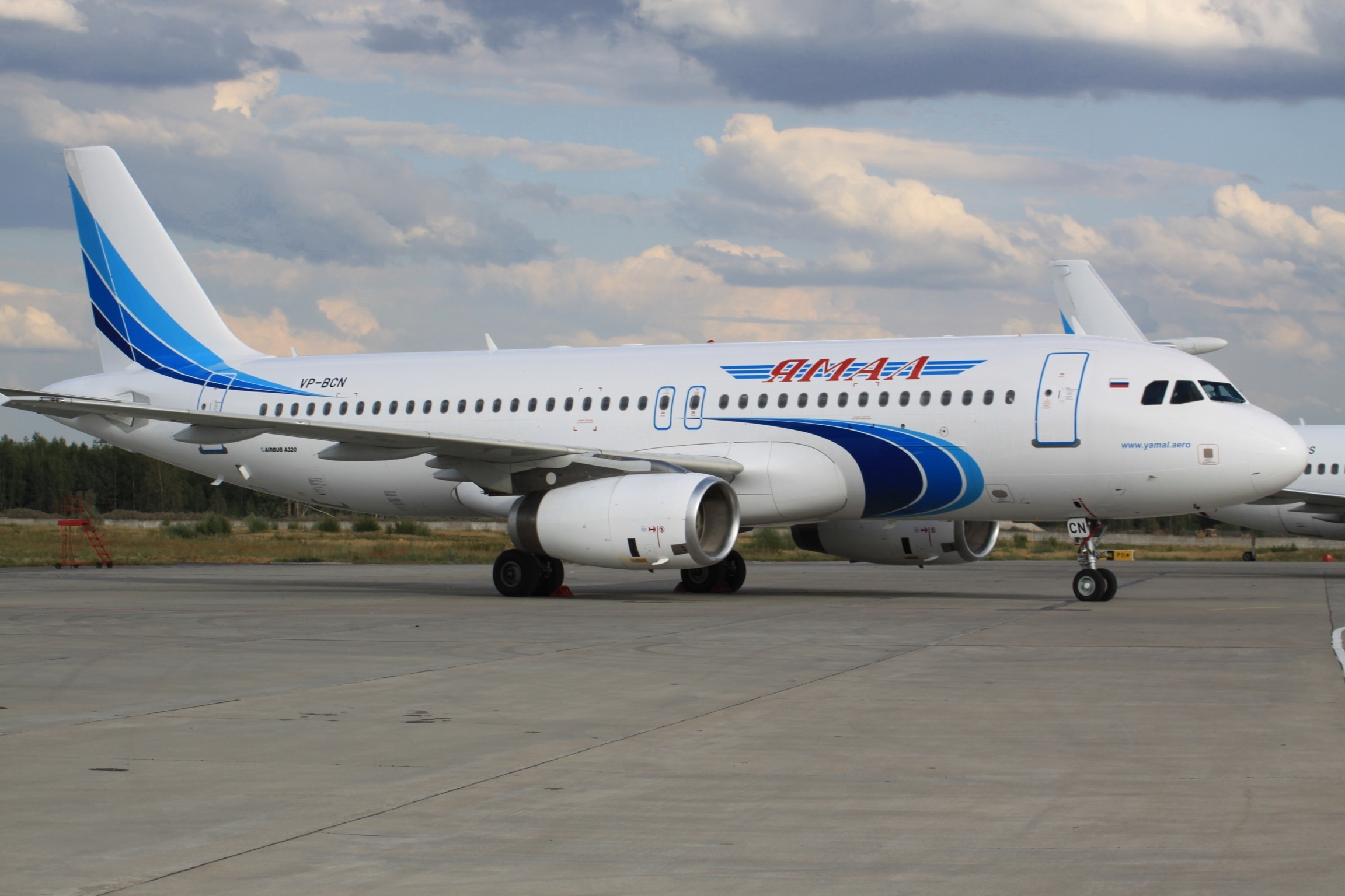 At Moscow Domodedovo